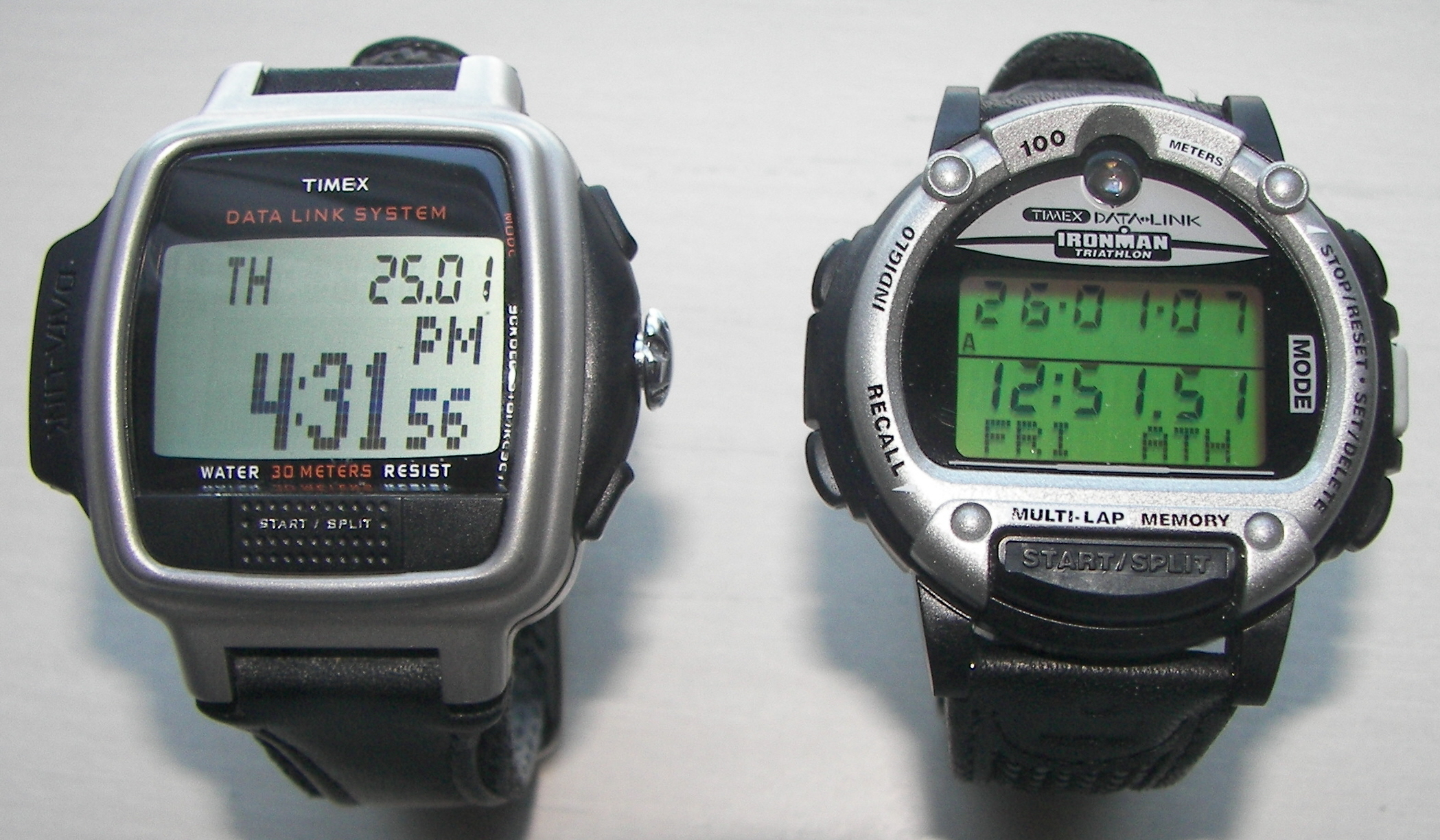 I am the creator. Dr.K. 21:08, 25 January 2007 (UTC)